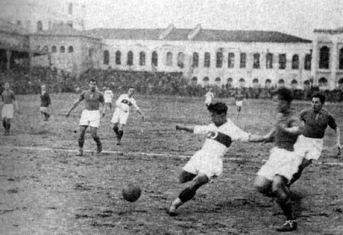 Hakkı Yeten and Turkey national football team against Hungary B national football team in Taksim Stadium, Istanbul (22 April 1932)